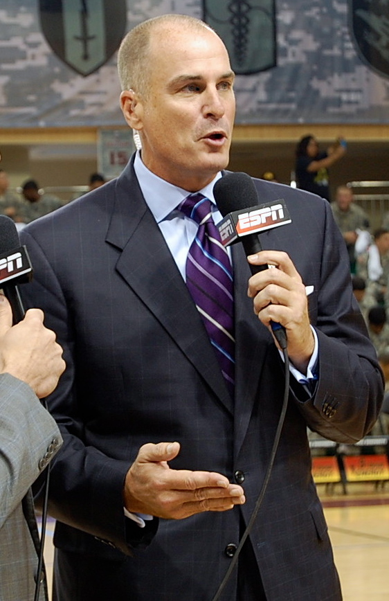 Jay Bilas, college basketball analyst for ESPN U.S. Army photos by Steven Hoover